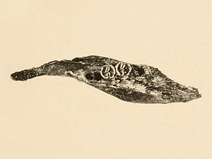 Oriente Cave Rat (Boromys offella); part of the lower jaw Photo from 'Bulletin of the Museum of Comparative Zoology at Harvard College. Vol 62. 1918-1919. Cambridge, Mass., USA'